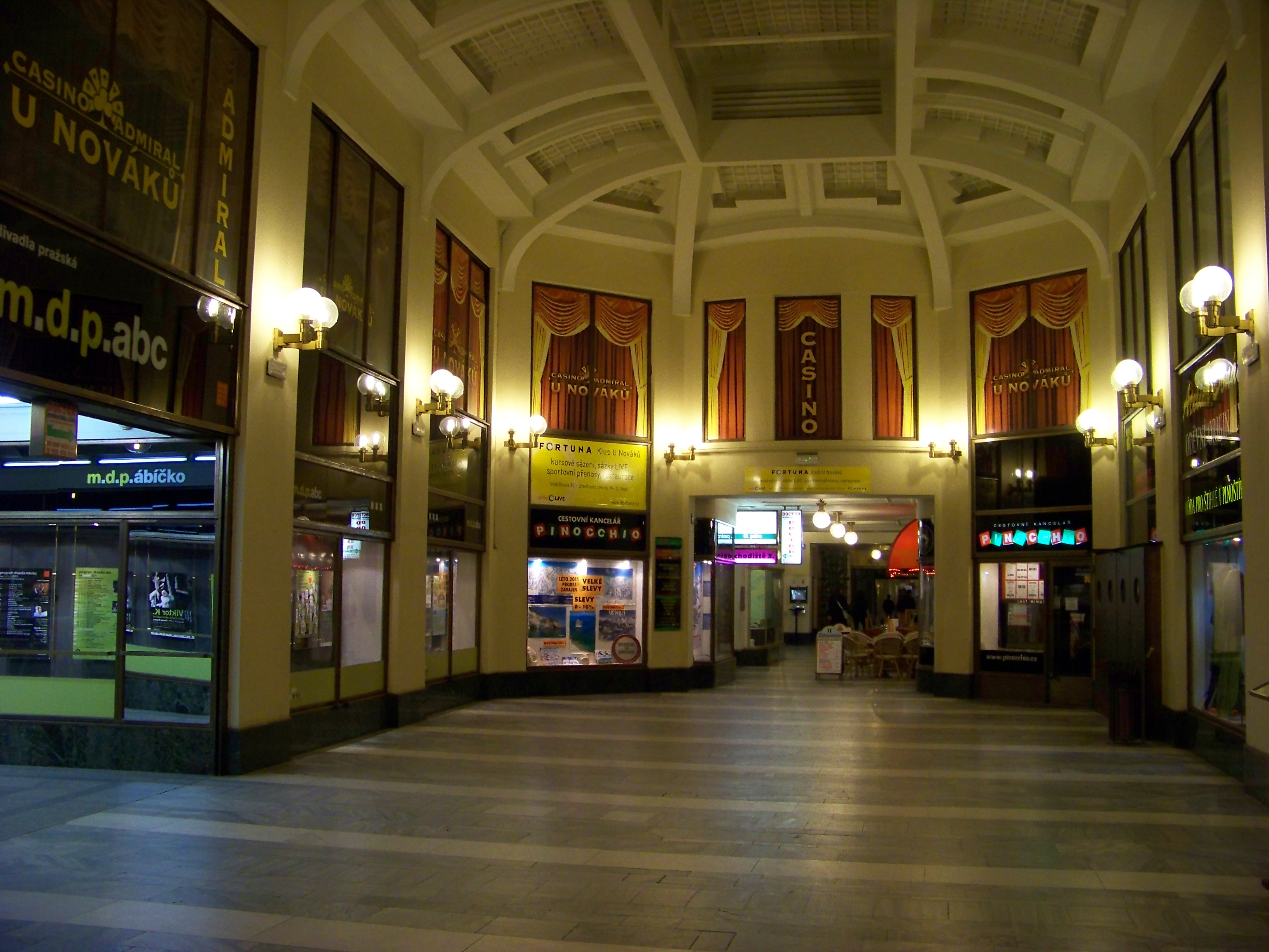 Prague-New Town, the Czech Republic. U Nováků Passage. - OpenStreetMap(Info)